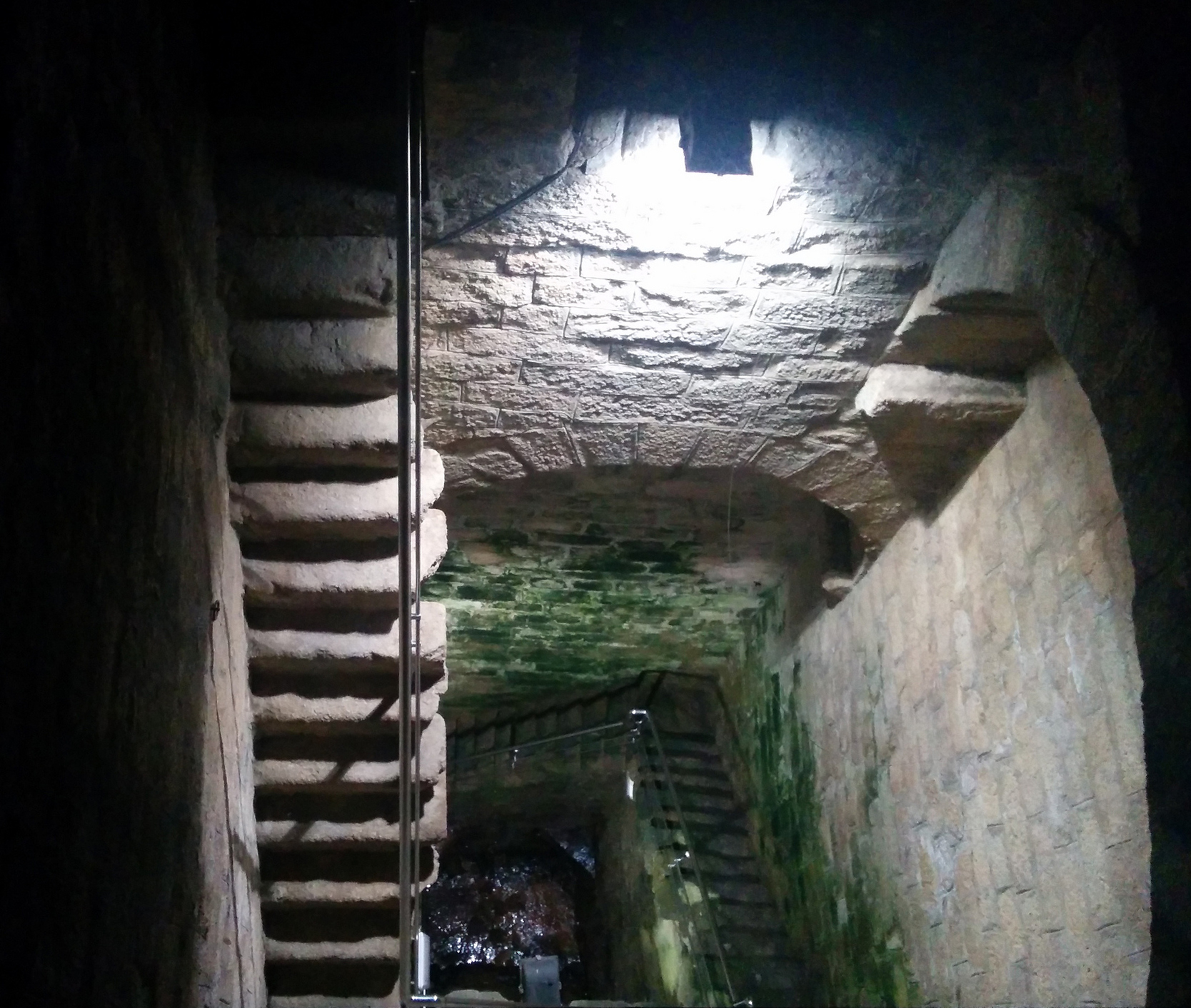 Roman construction in the Proserpine Dam